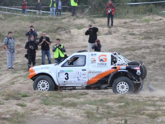 Boris Gadasin (driver, RUS), Aleksiej Kuzmih (co-driver, RUS), G-Force Motorsport racing team, #3 G-Force Proto, Baja Poland 2012